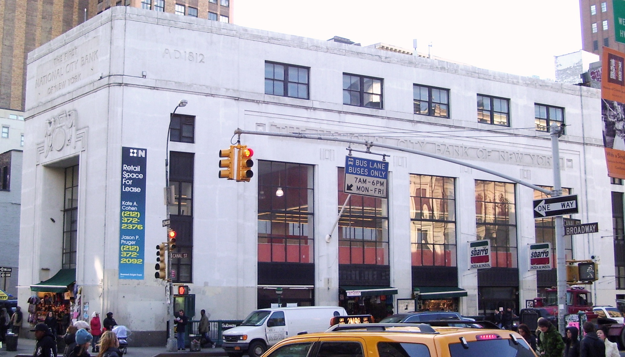 The First National City Bank building at 415-417 Broadway at the corners of Lispenard (65-69) and Canal Streets (296) in the Tribeca neighborhood of Manhattan, New York City, was built in 1927 in the Moderne style, and was designed by Walker & Gillette. National City Bank was a precursor to Citibank. The building is located within the Tribeca East Historic District. (Source: [It is located within the SoHo - Cast Iron Historic District. (Source: "Tribeca East Historic District Designation Report") This image shows the Canal Street Street (right) and Broadway (left) facades.